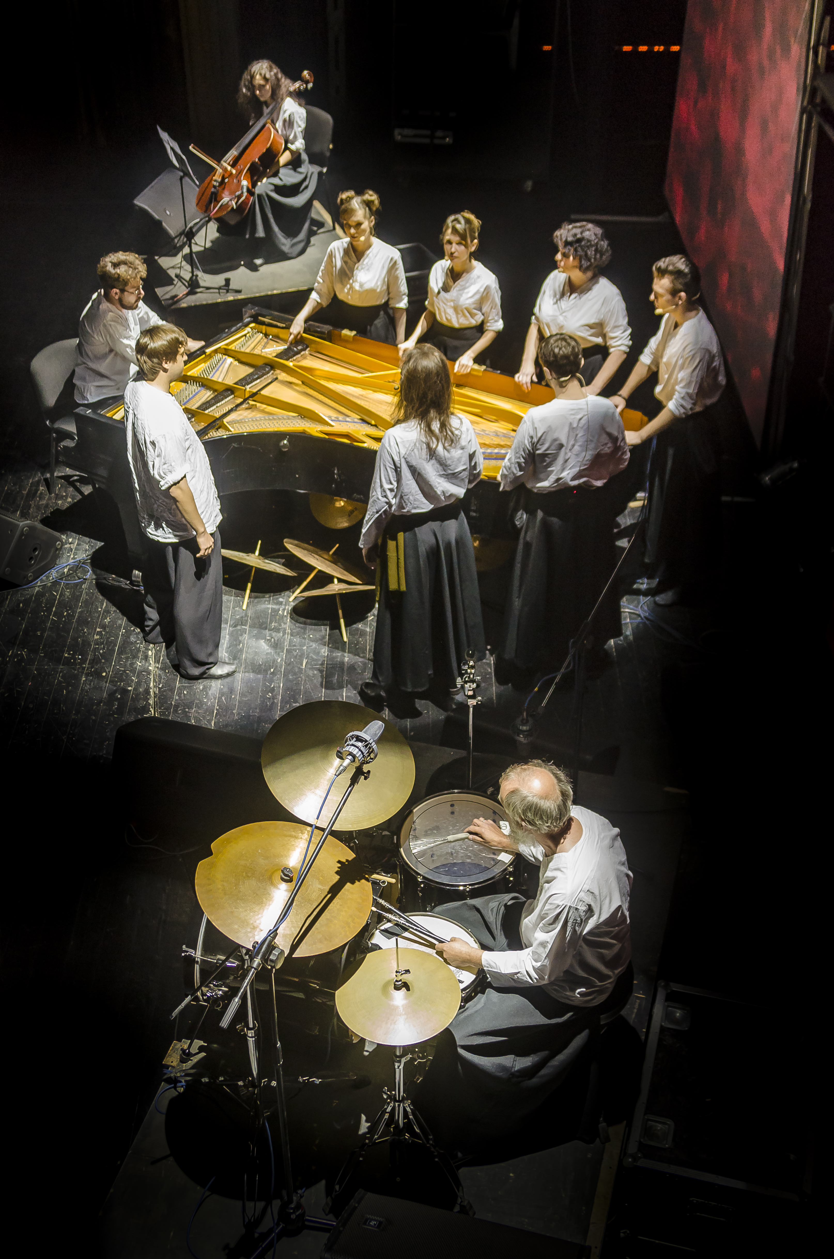 opera-requiem IYOV. Performance in Ivano-Frankivsk, June 2016. Photo Denys Ovchar